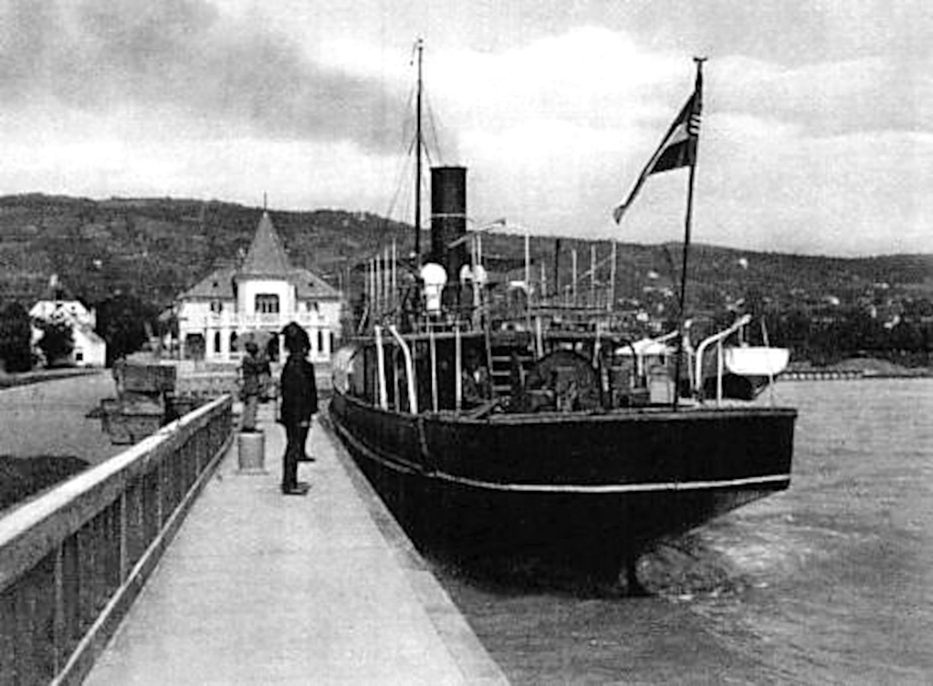 A Kelén hajó Révfülöpön 1923-ban Zempléni Múzeum (Szerencs) képeslap gyűjtemény